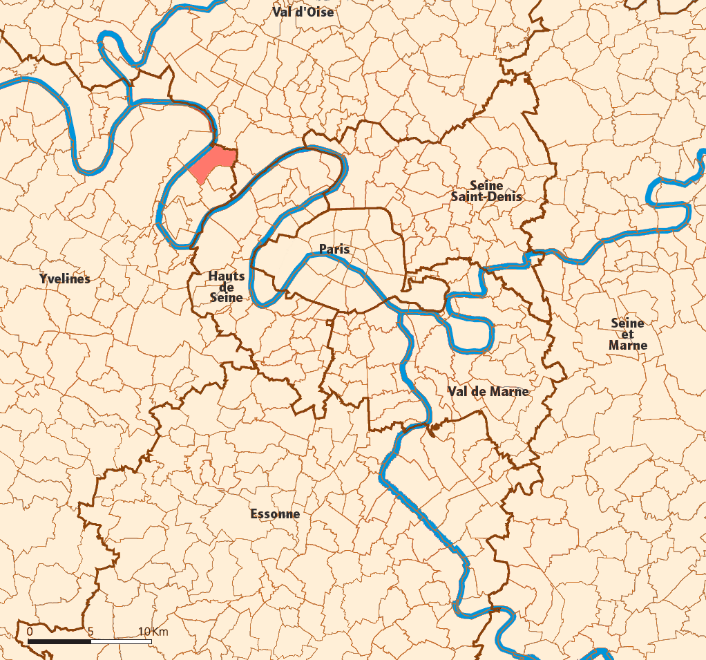 Created map myself.